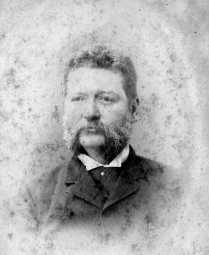 Portrait of Boyd Morehead, Premier of Queensland, Australia (1888-1890)